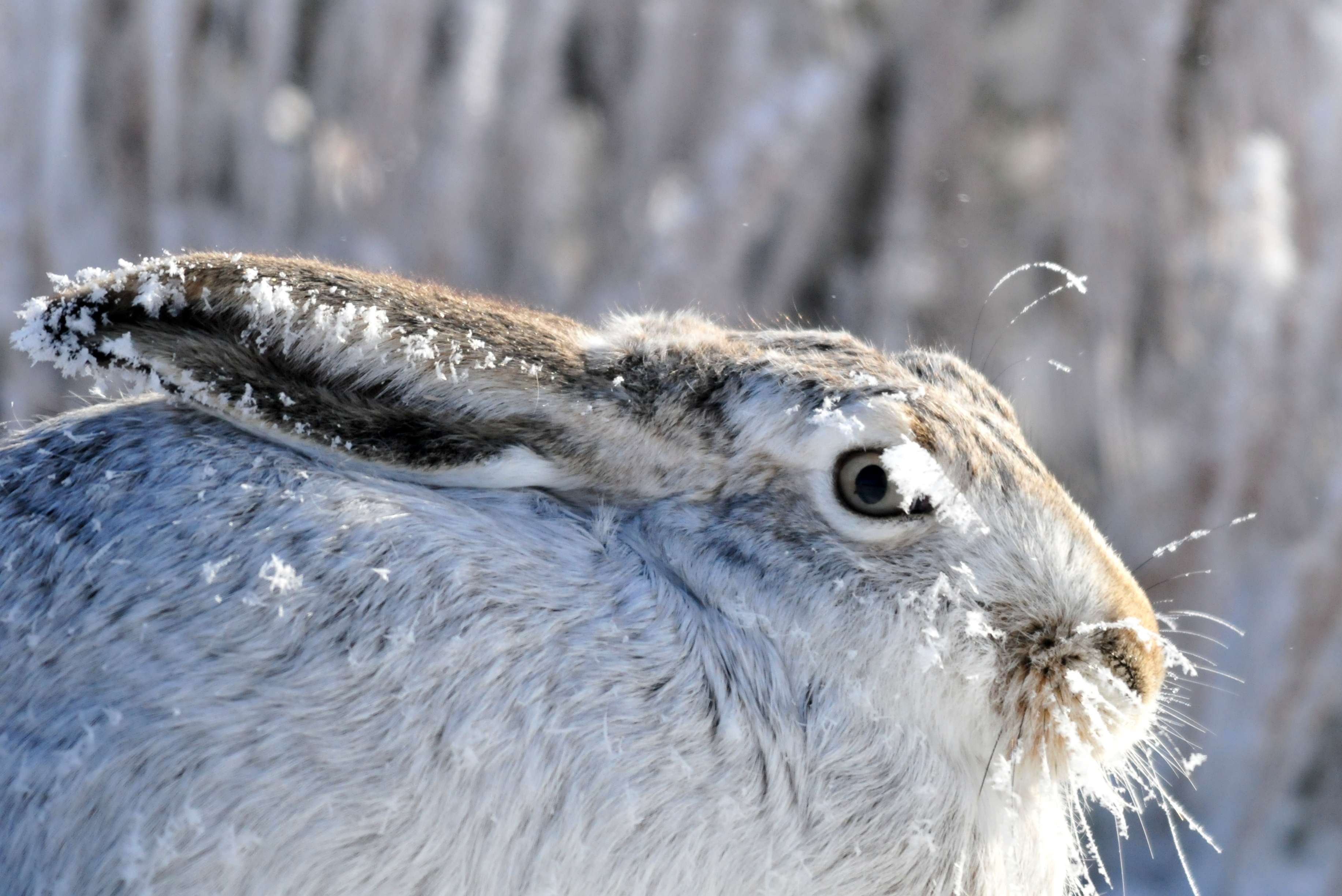 Here's a new one, hoar frost on a white-tailed jackrabbit at Seedskadee NWR. Photo: Tom Koerner/USFWS